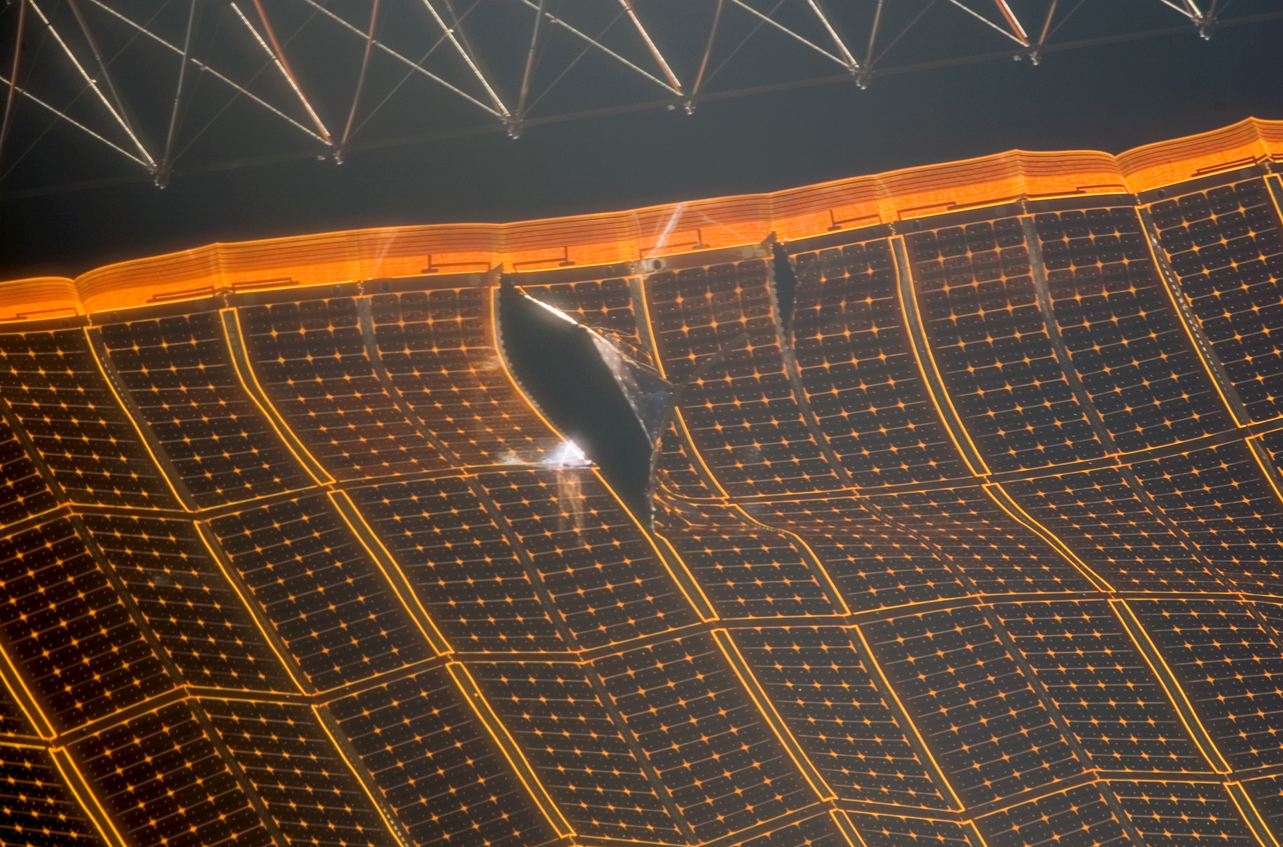 A view of a damaged P6 4B solar array wing on the International Space Station. NASA halted the deployment -- which is about 80 percent complete -- to evaluate the damage.